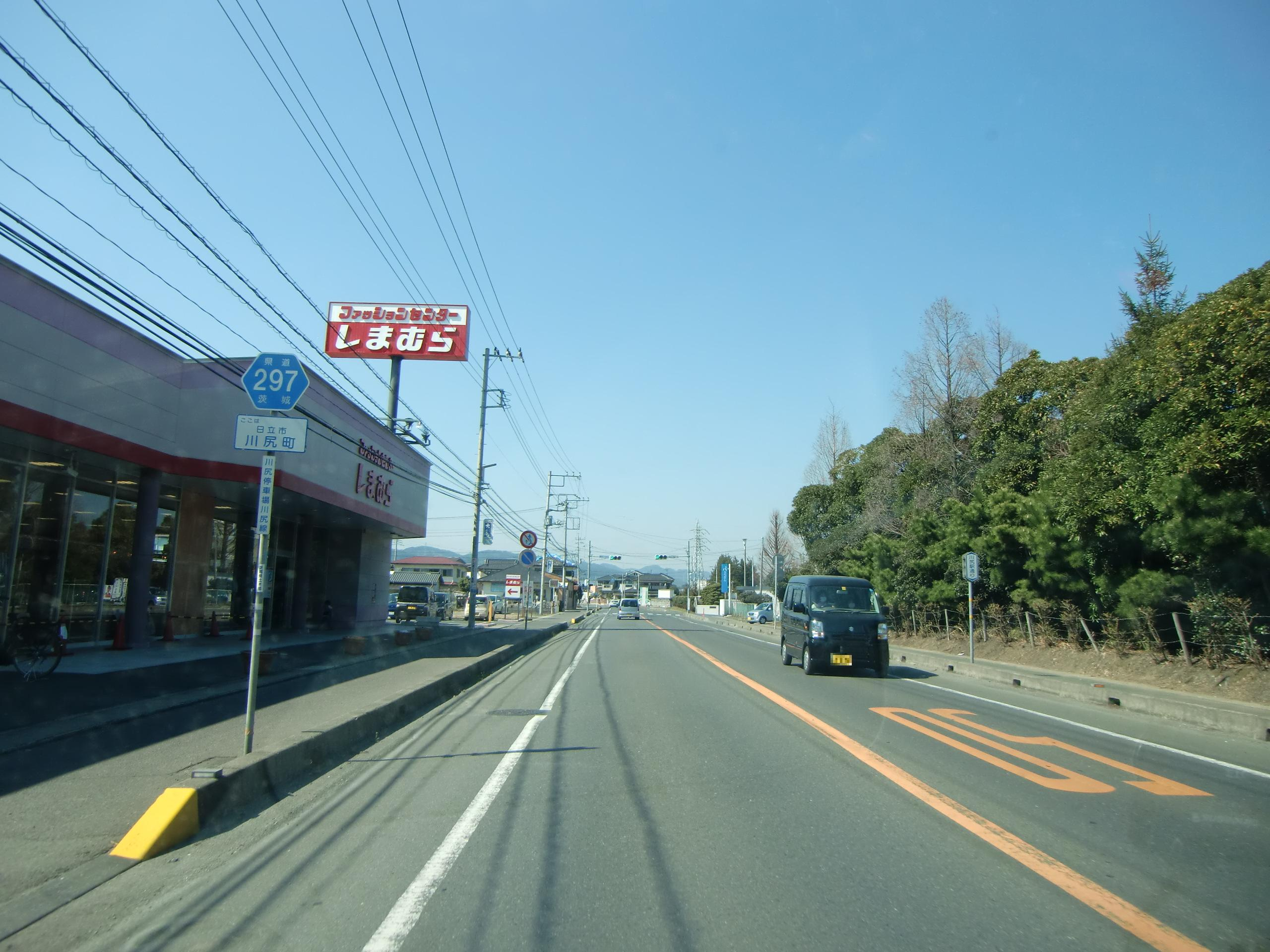 Ibaraki prefectural road 297(Juōteishajyō-kawajiri line) in Kawajiri-chō, Hitachi-city, Ibaraki-pref, Japan.